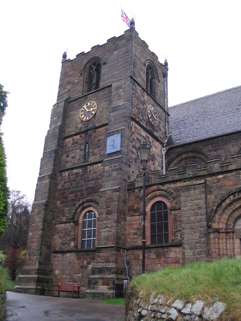 St Mary's Priory Church, Tutbury